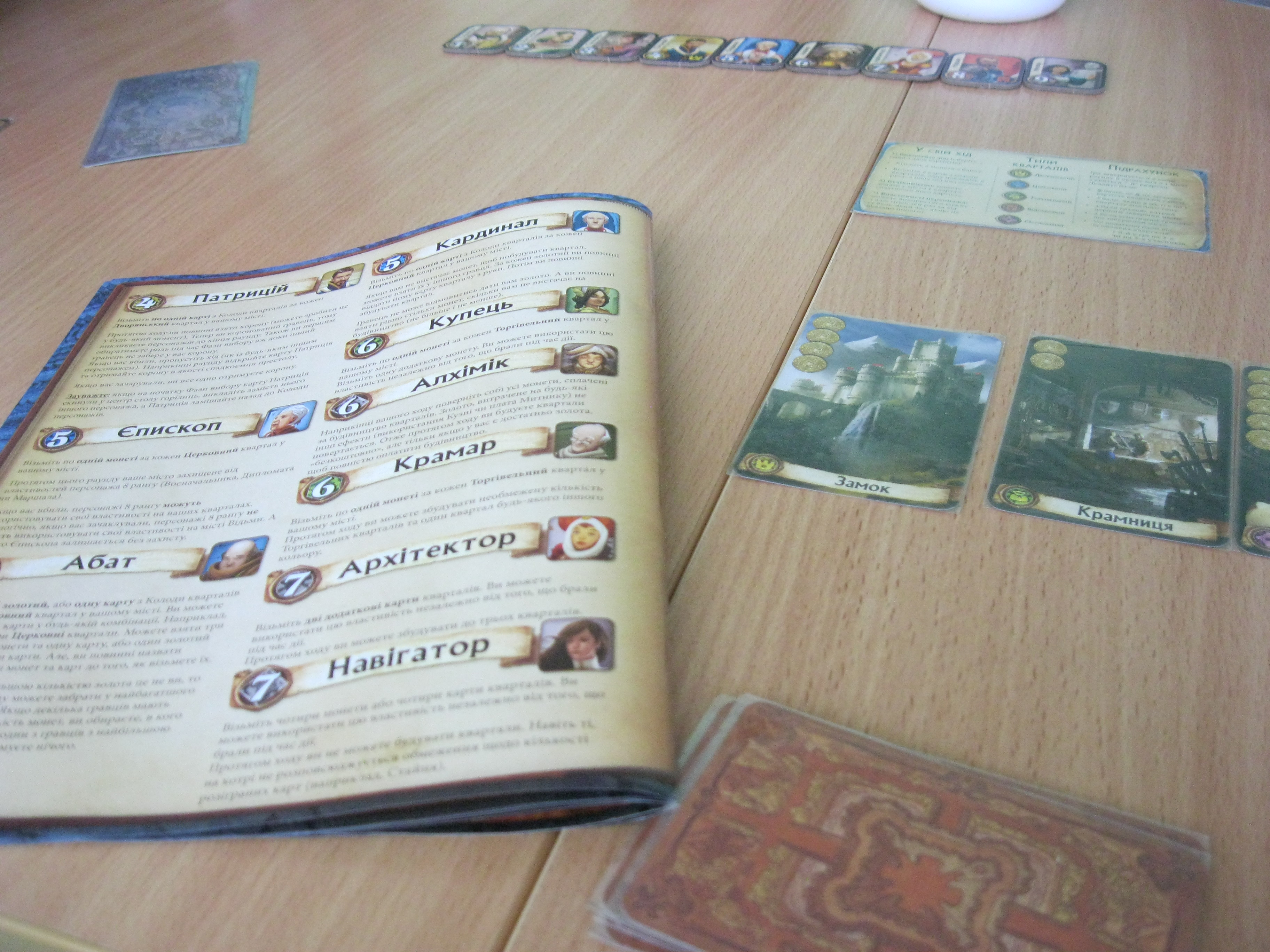 Elements of Citadels card game (New Edition)